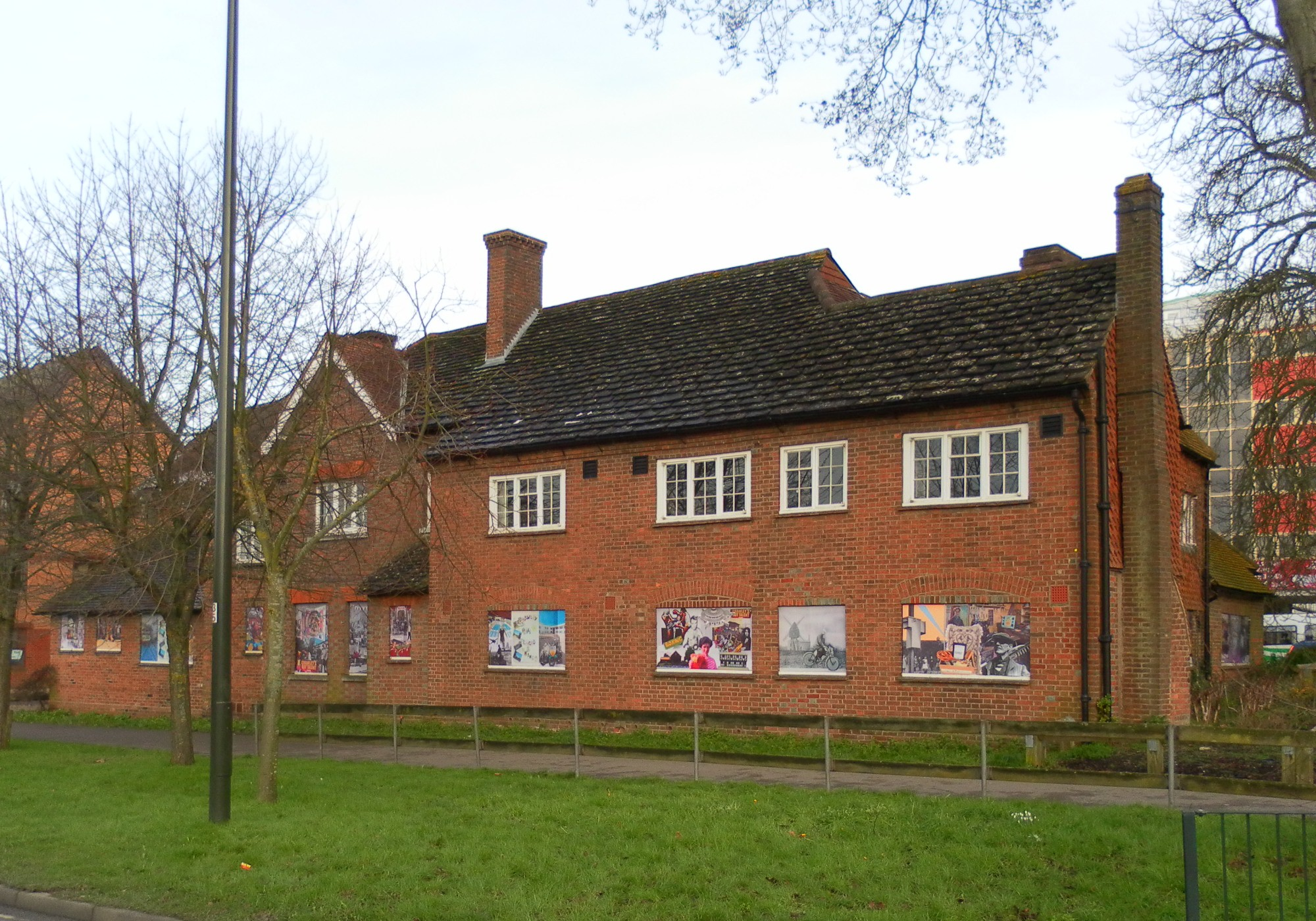 Tree House, 103 High Street, Crawley, West Sussex, England. The old manor house of Crawley. Listed at Grade II by English Heritage (IoE Code 363351)